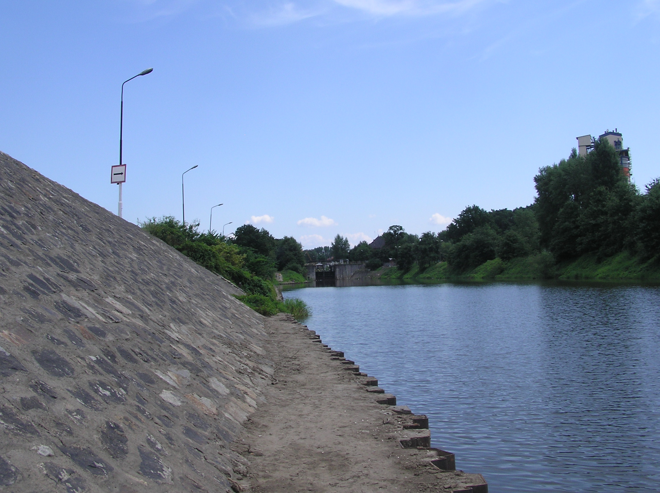 Wrocław, Oder River, trail side Oder waterway (european waterway E-30), Miejski Canal, Miejska Lock